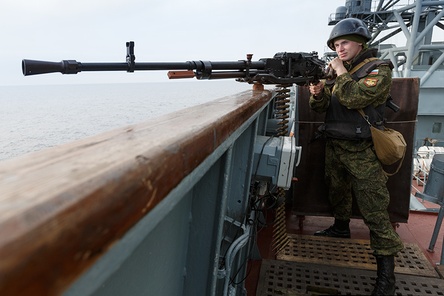 Permanent group of the Russian Navy in the Mediterranean Sea provides air defence in Syria